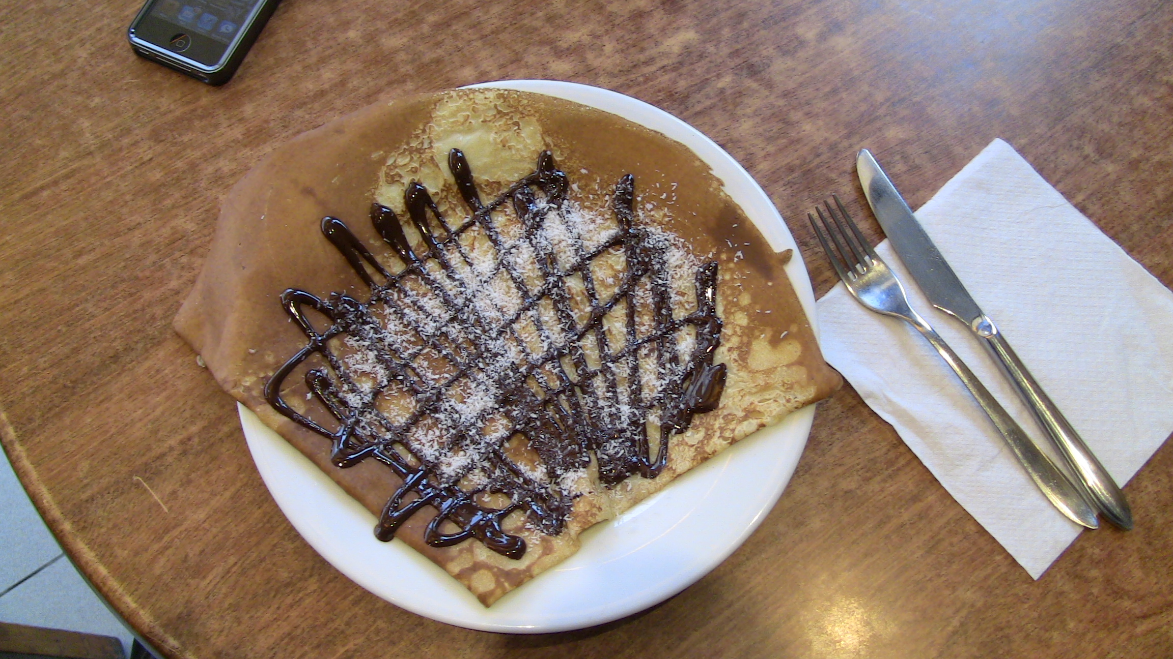 A Chocolate & Coconut Crêpe from a crêperie in Paris